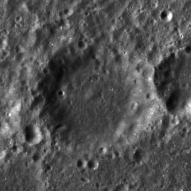 Perel'man lunar crater - LROC image